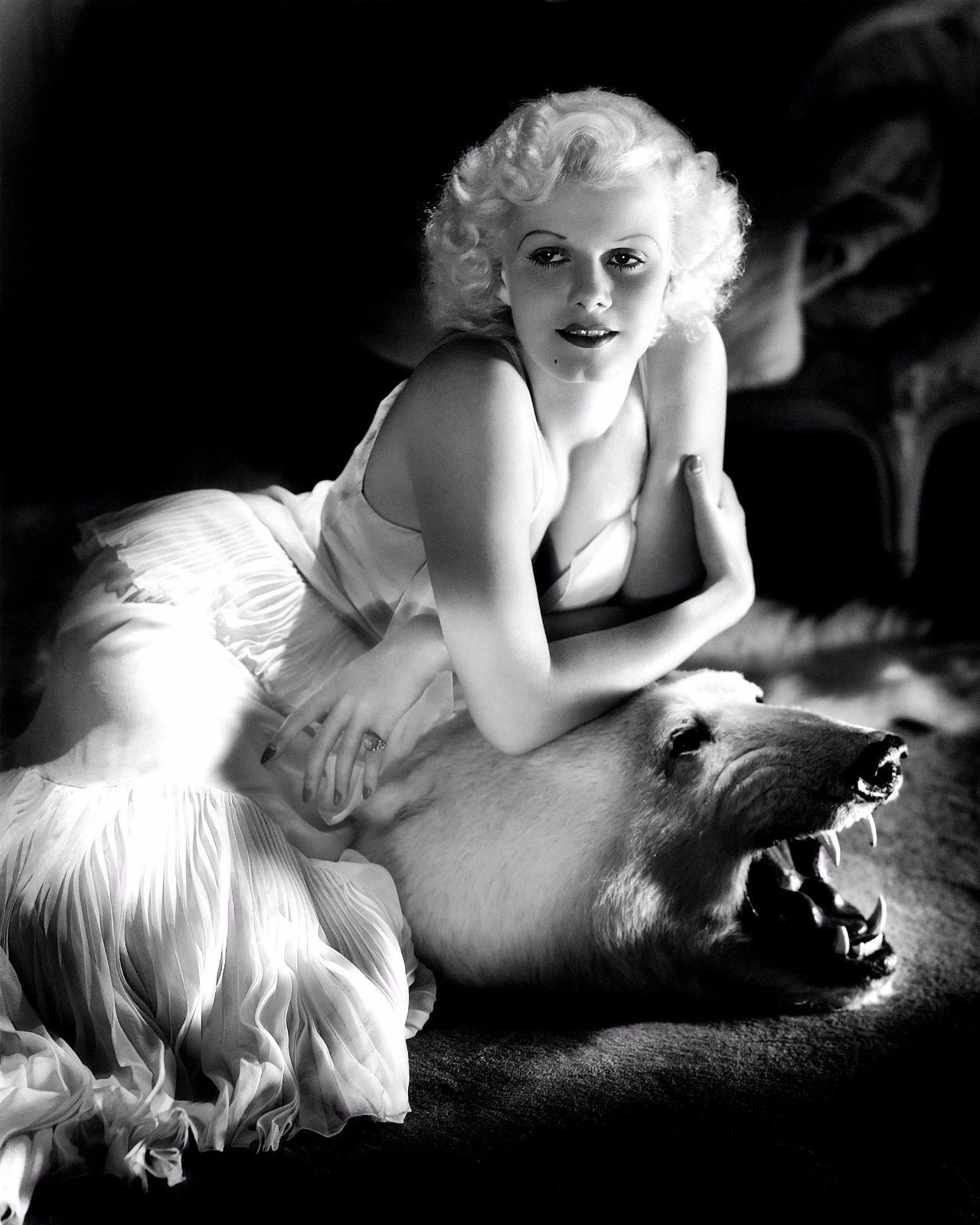 Publicity photo of Jean Harlow (1930s).